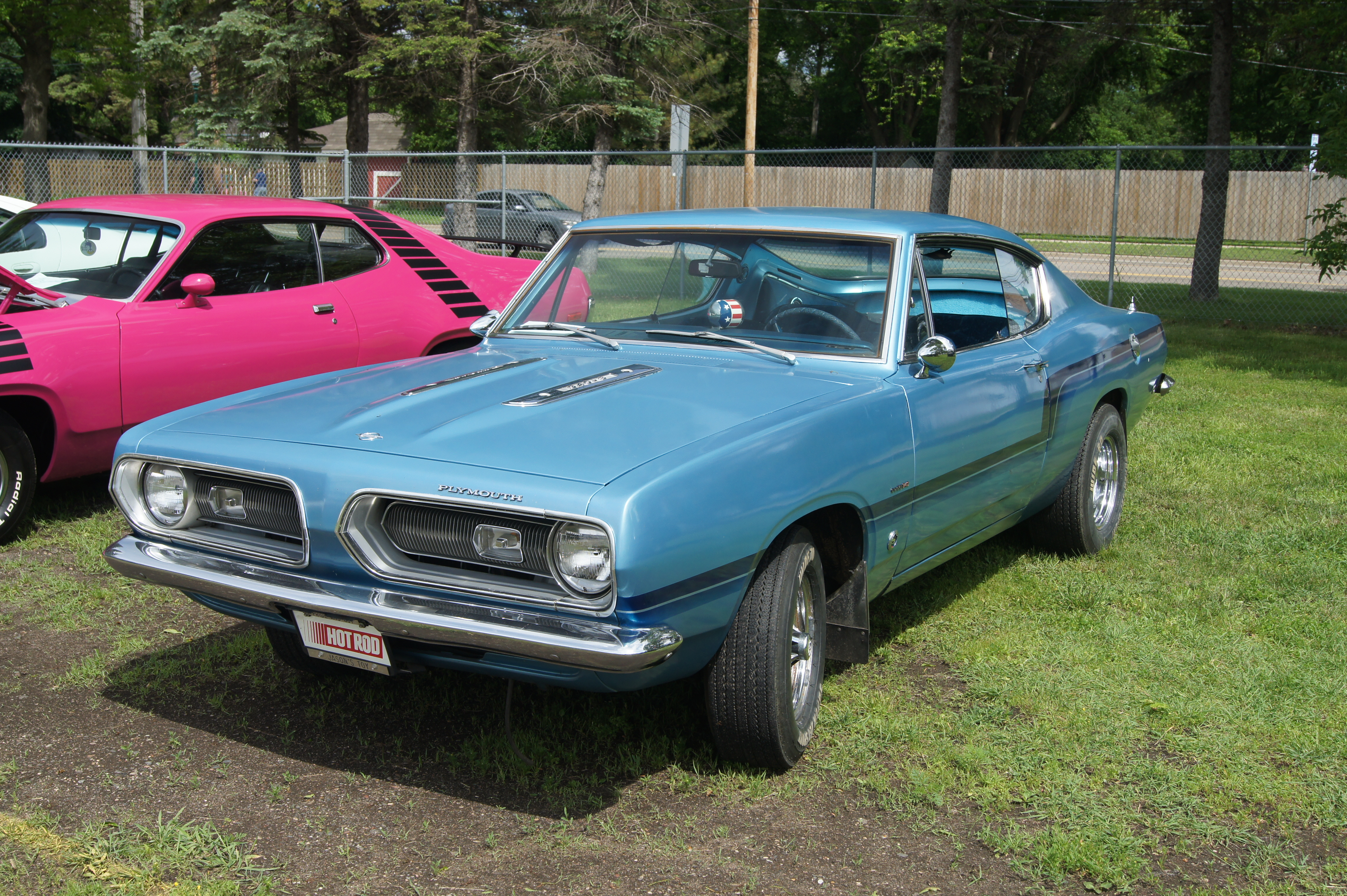 Midwest Mopars in the Park National Car Show & Swap Meet Dakota County Fairgrounds Farmington, Minntesota May 30 & 31, 2015 Click here for more car pictures at my Flickr site.